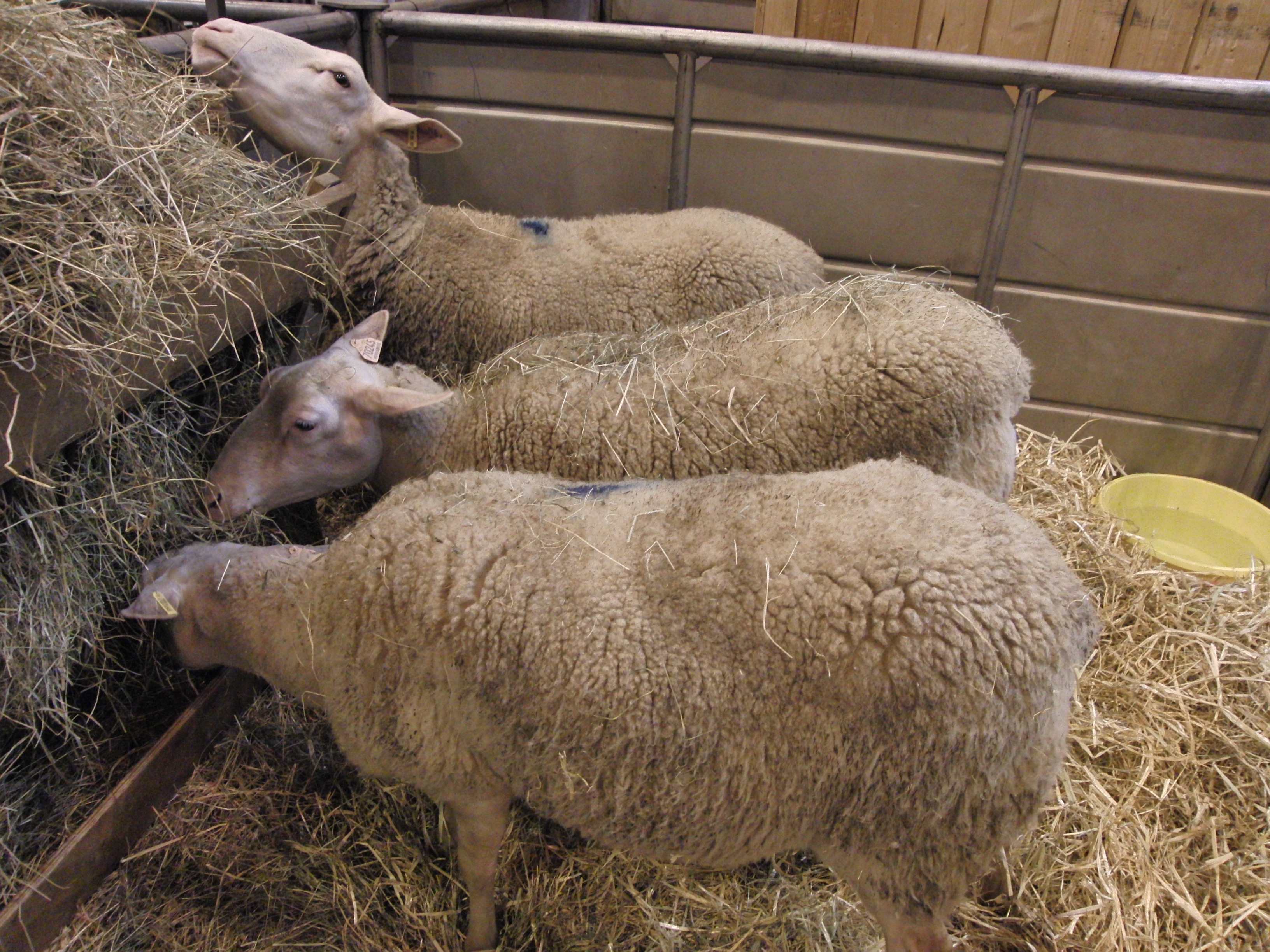 Berrichon de l'Indre sheeps - Salon international de l'agriculture 2011, Paris, France